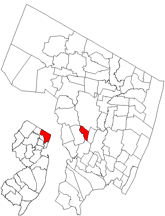 Map showing Rochelle Park within Bergen County, NJ.